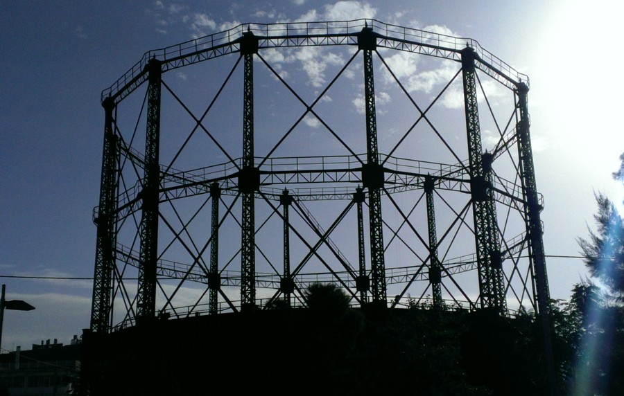 athens